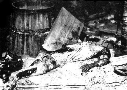 Warsaw insurgent murdered by German troops on 2 September 1944. Military hospital at Długa 9 street in Warsaw’s Old Town.